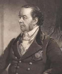 Charles Metcalfe, governor general of Canada